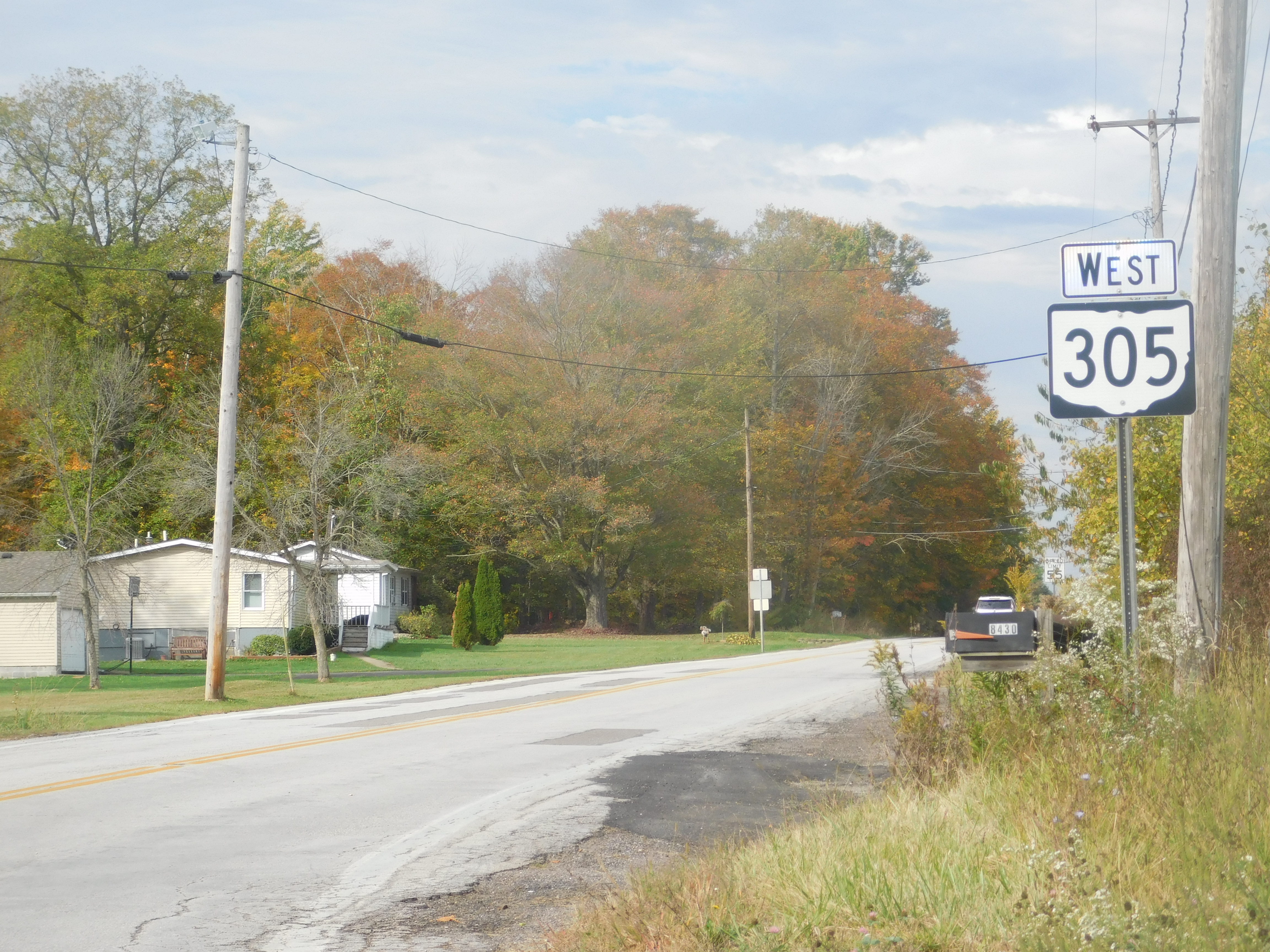 OH 305 at the state line.